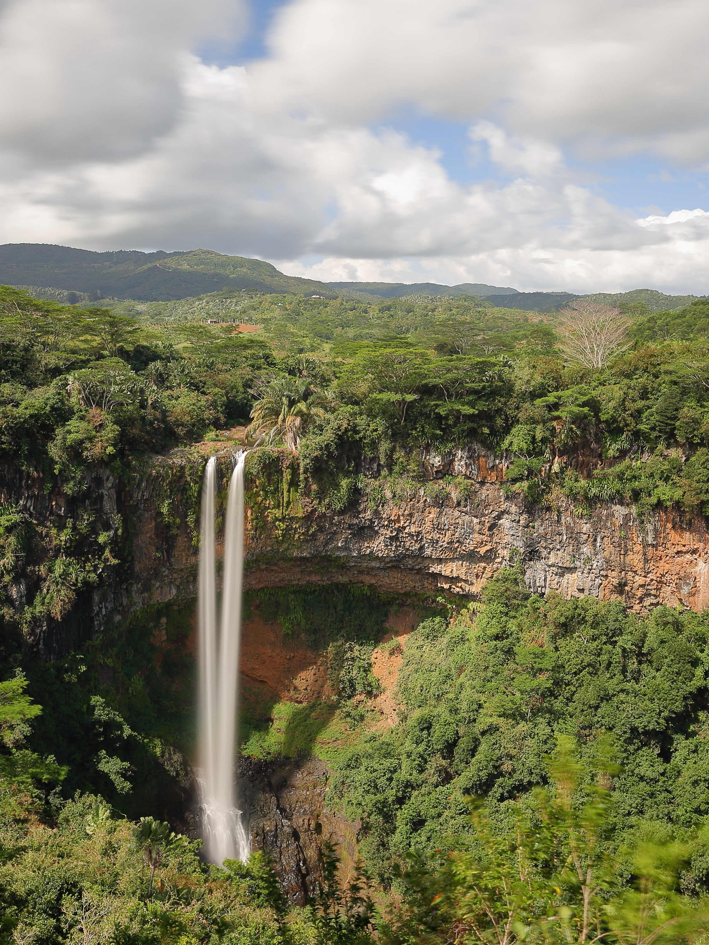 Long exposure shot of Chamarel Falls, Mauritius